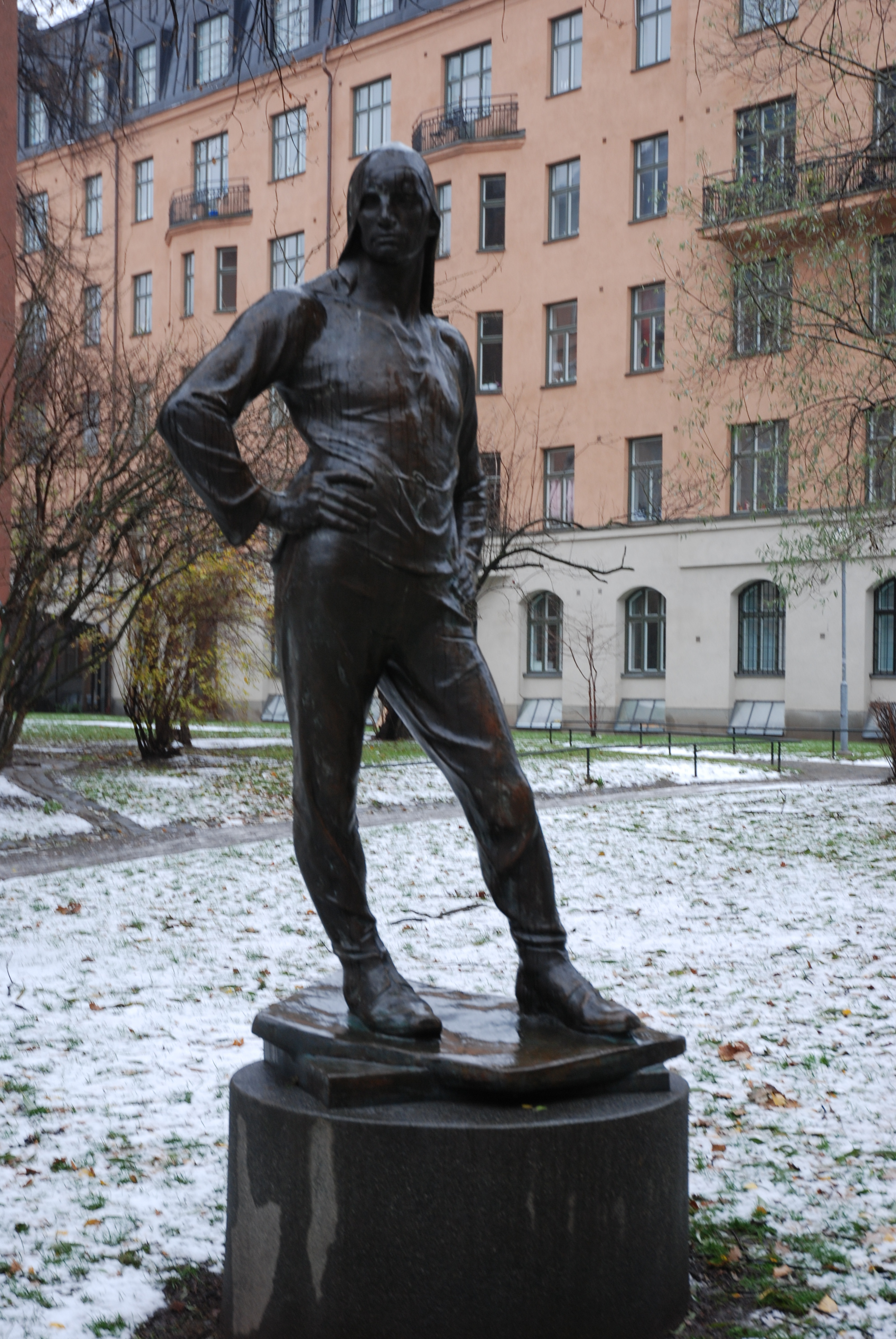 Constantin Meunier´s Hamnarbetaren (Harbour worker), Stockholm, Sweden